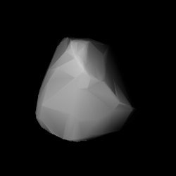 3D convex shape model of 868 Lova, computed using light curve inversion techniques. J. Hanuš, J. Ďurech, M. Brož, B. D. Warner (June 2011). "A study of asteroid pole-latitude distribution based on an extended set of shape models derived by the lightcurve inversion method". Astronomy and Astrophysics 530: A134. ISSN 0004-6361. arXiv